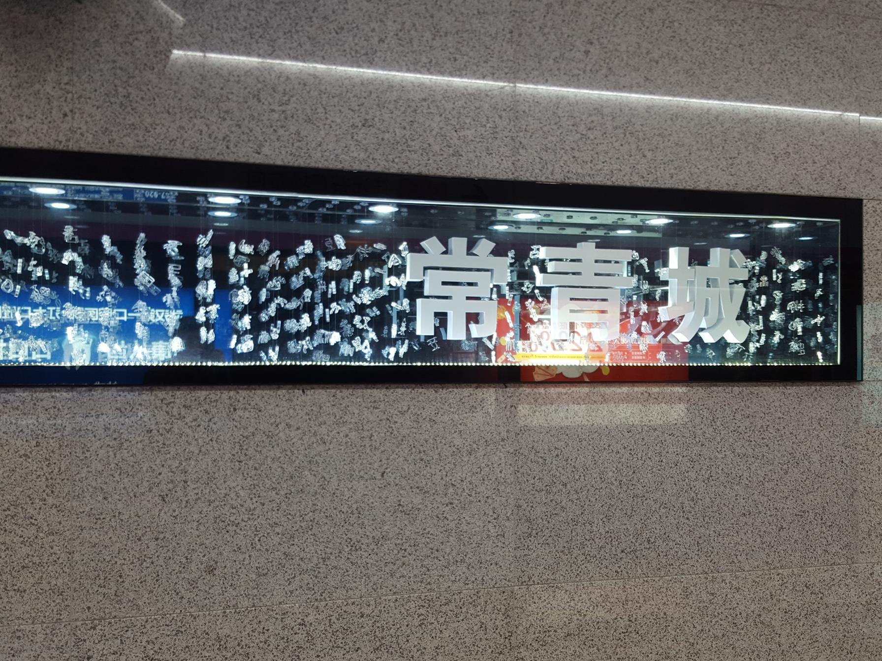 Name Box of Changqingcheng Station, Wuhan Metro